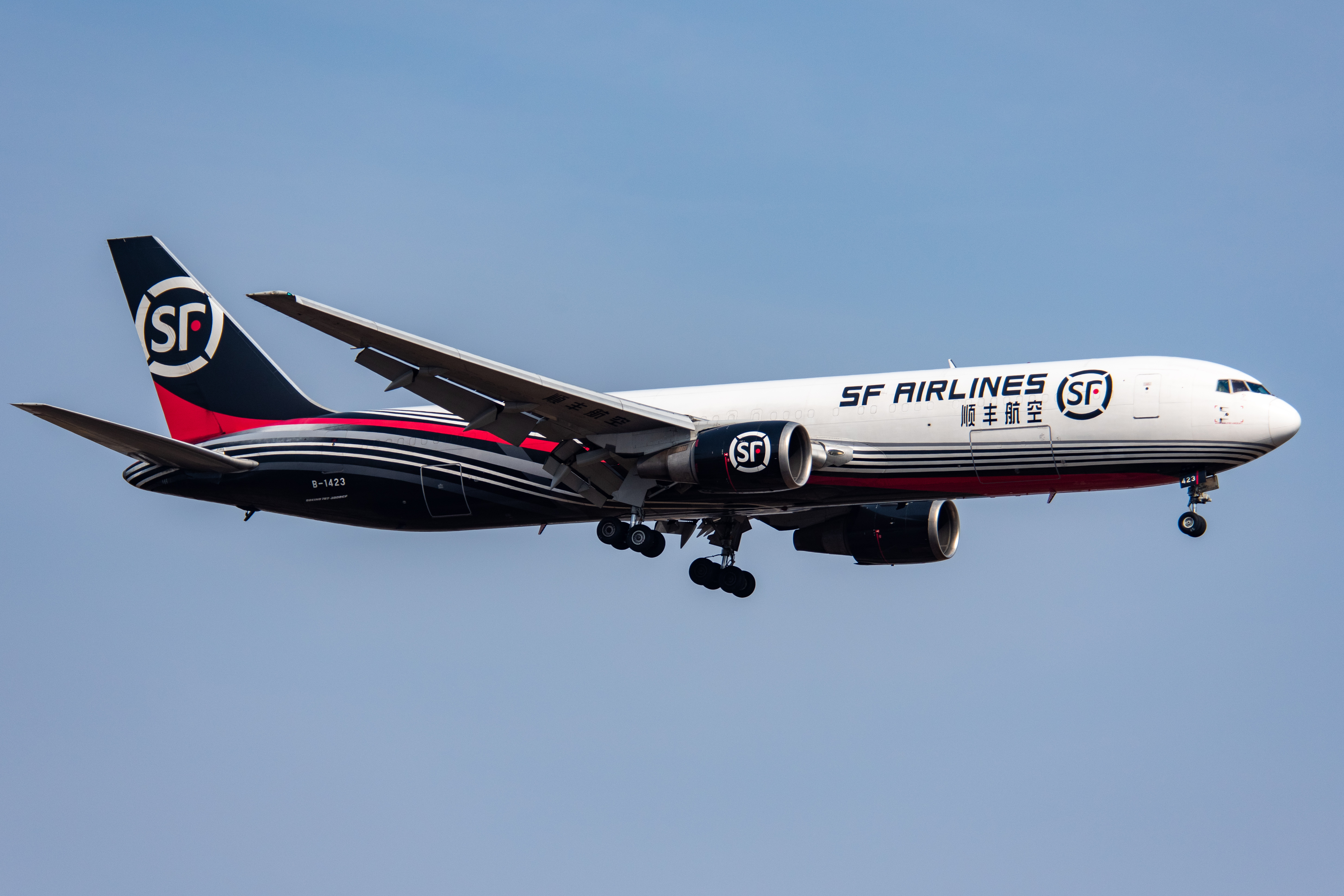 Shunfeng 7200 from Wuhan. Thanks to SF Airlines, CF6-powered B767s has finally returned to Chinese carriers since the departure of B-2499.